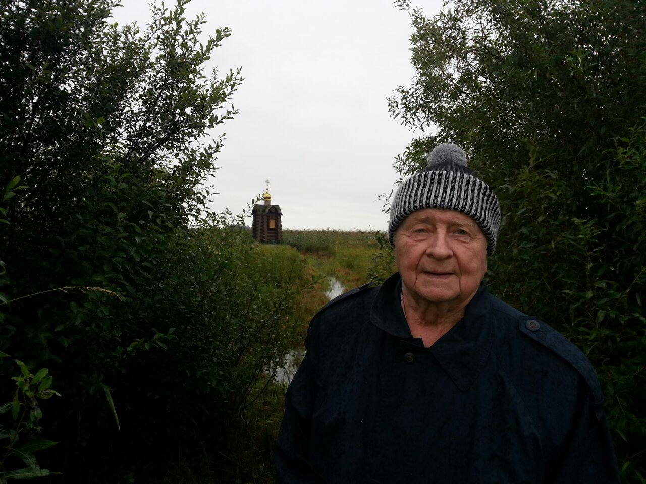 Anatoly Kirpichnikov at Kobylie Gorodishe.